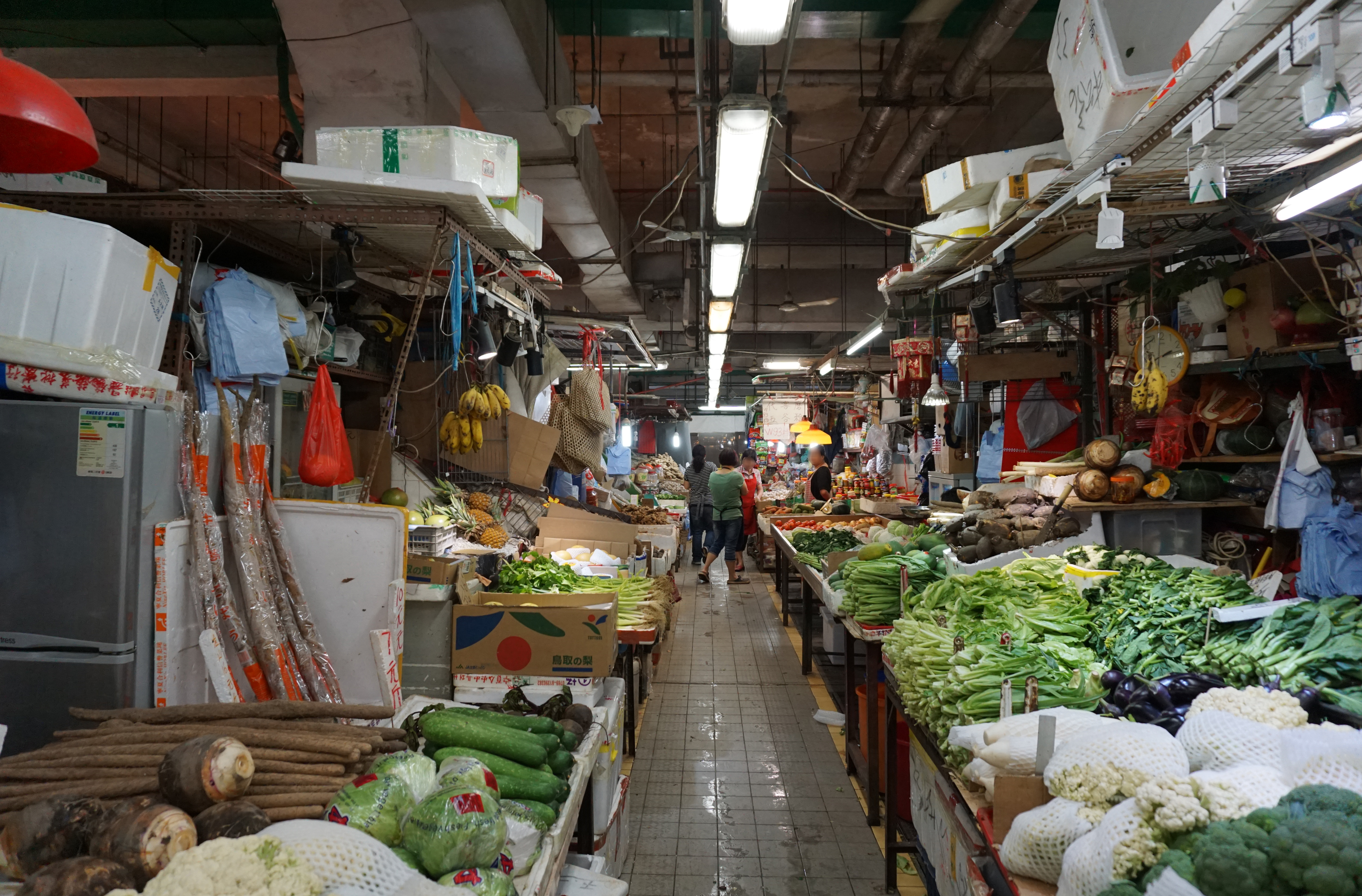 To Kwa Wan Market in Ma Tau Wai, Hong Kong.